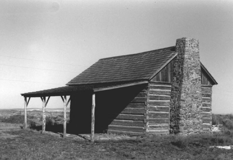 Historic blacksmith's log cabin on Double O Ranch in Harney County, Oregon; listed on the National Register of Historic Places in 1982; now part of the Malheur National Wildlife Refuge